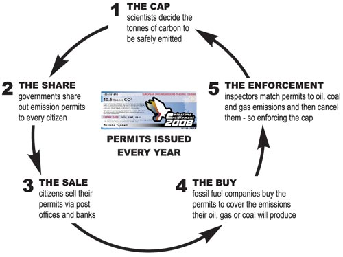 Diagram of how Cap and Share works to arrest climate change. Drawn by Dr Will Howard of cap and share Oct 2006.